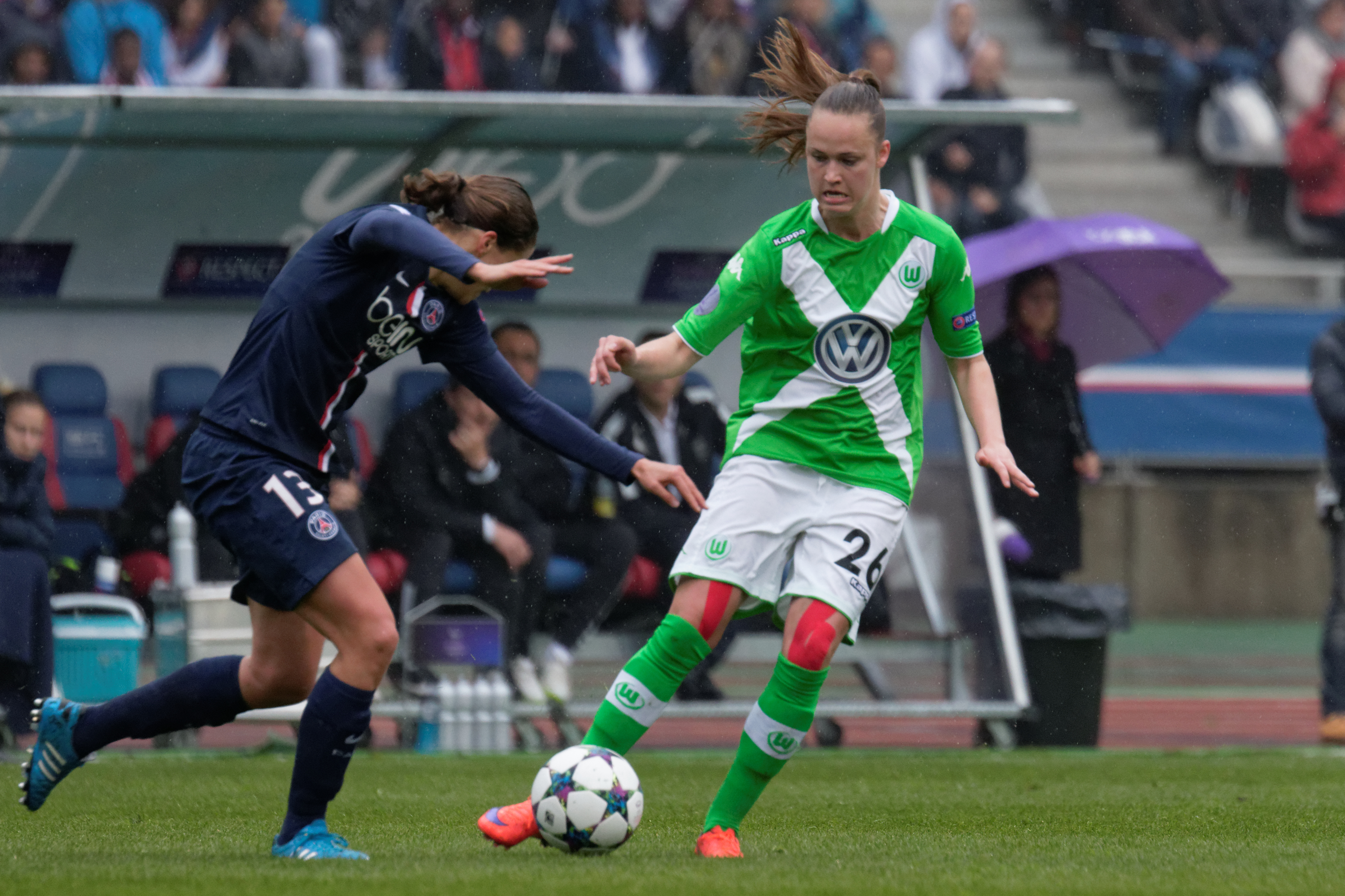 UEFA Women's Champions League, PSG - Wolfsburg, 26 April 2015.